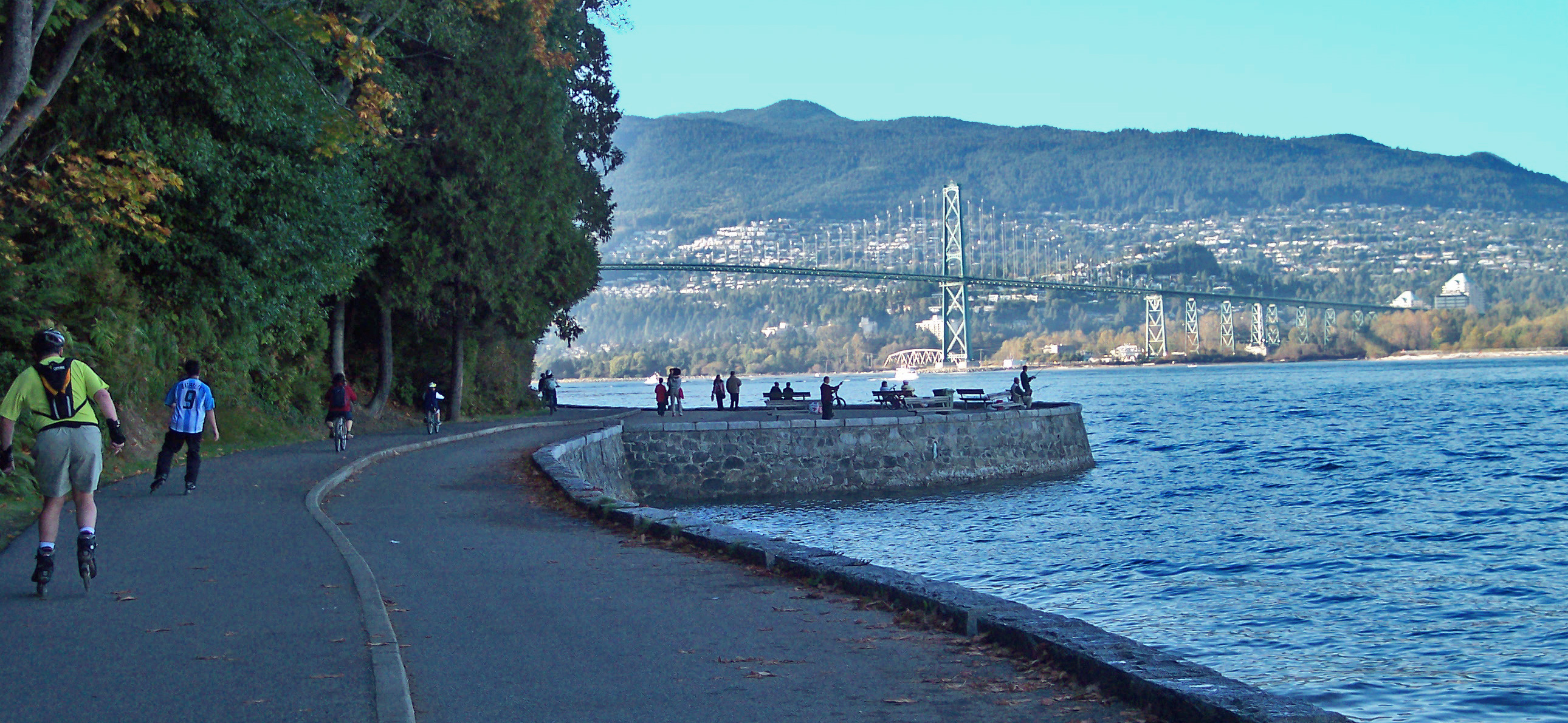 Stanley Park seawall, Vancouver, Canada